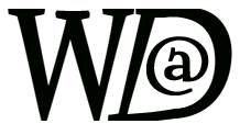 Identity proposal for Didactic Web: stylized initials, combines a distinctive element of Internet communication: the @, JPG